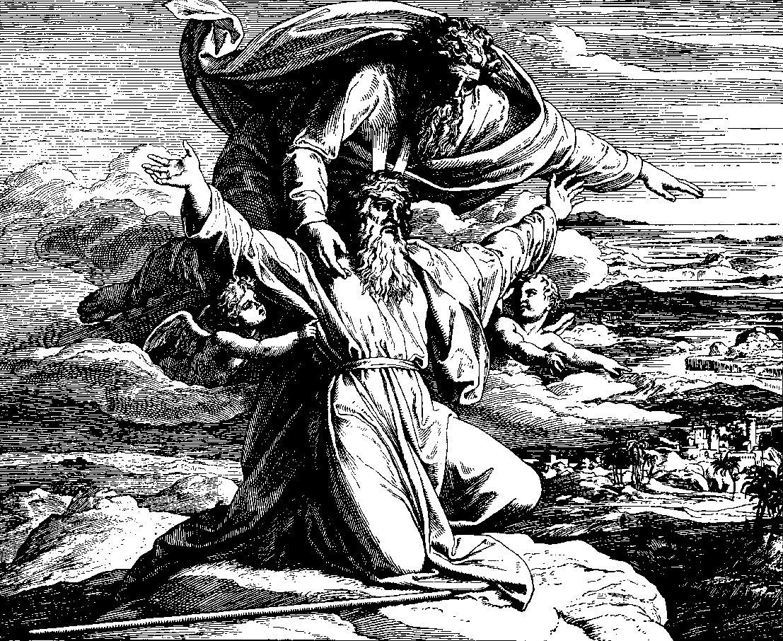 Woodcut for "Die Bibel in Bildern", 1860.